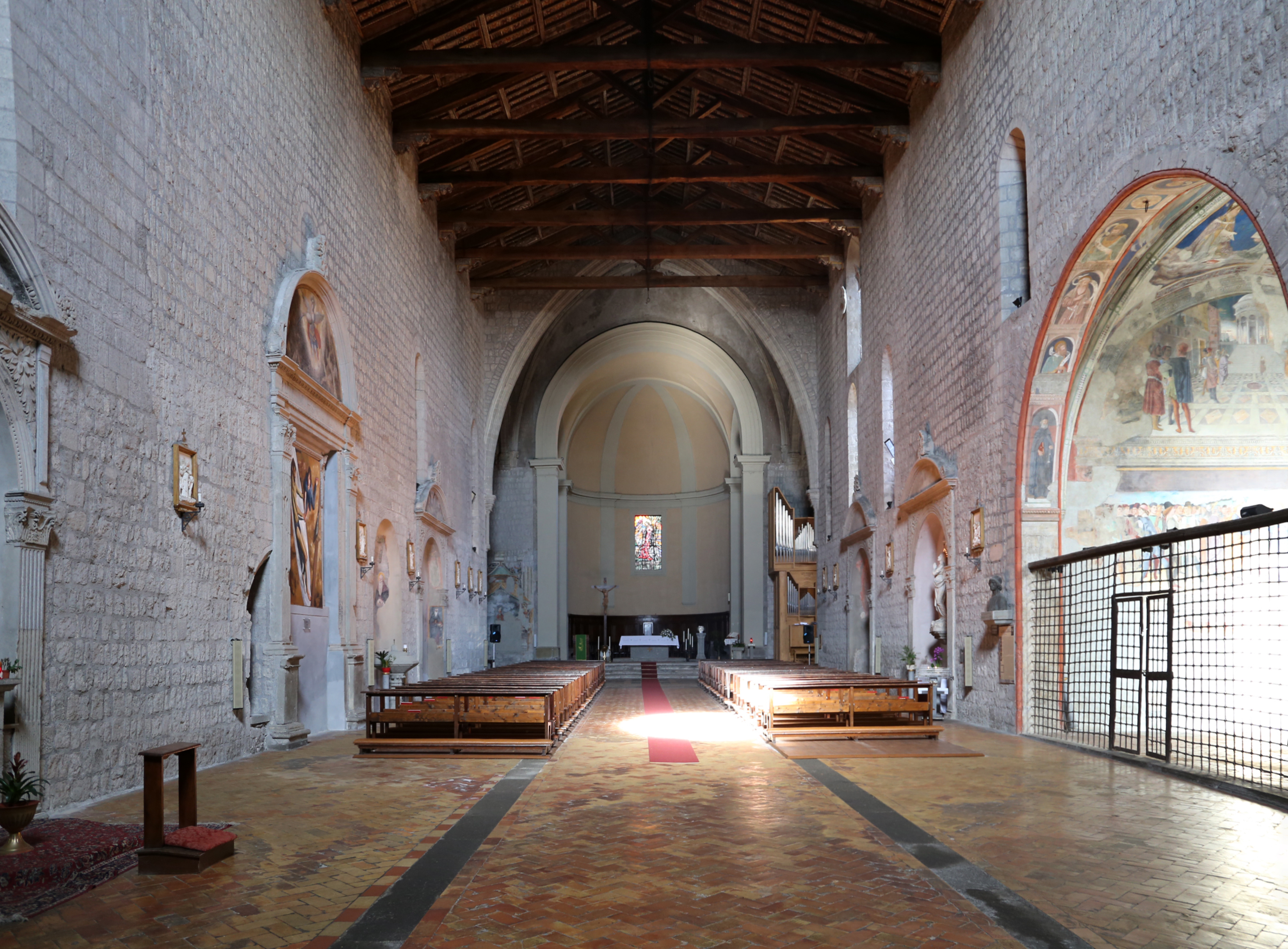 Santa Maria della Verità (Viterbo)